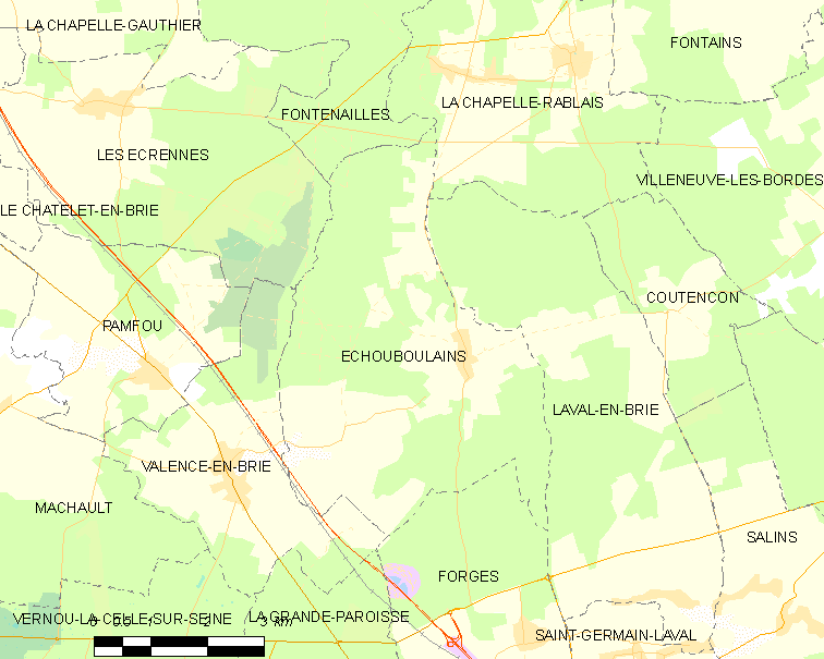 Map of French municipality Échouboulains